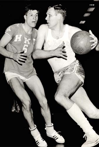 Martti Liimo tries to defend Raimo Lindholm